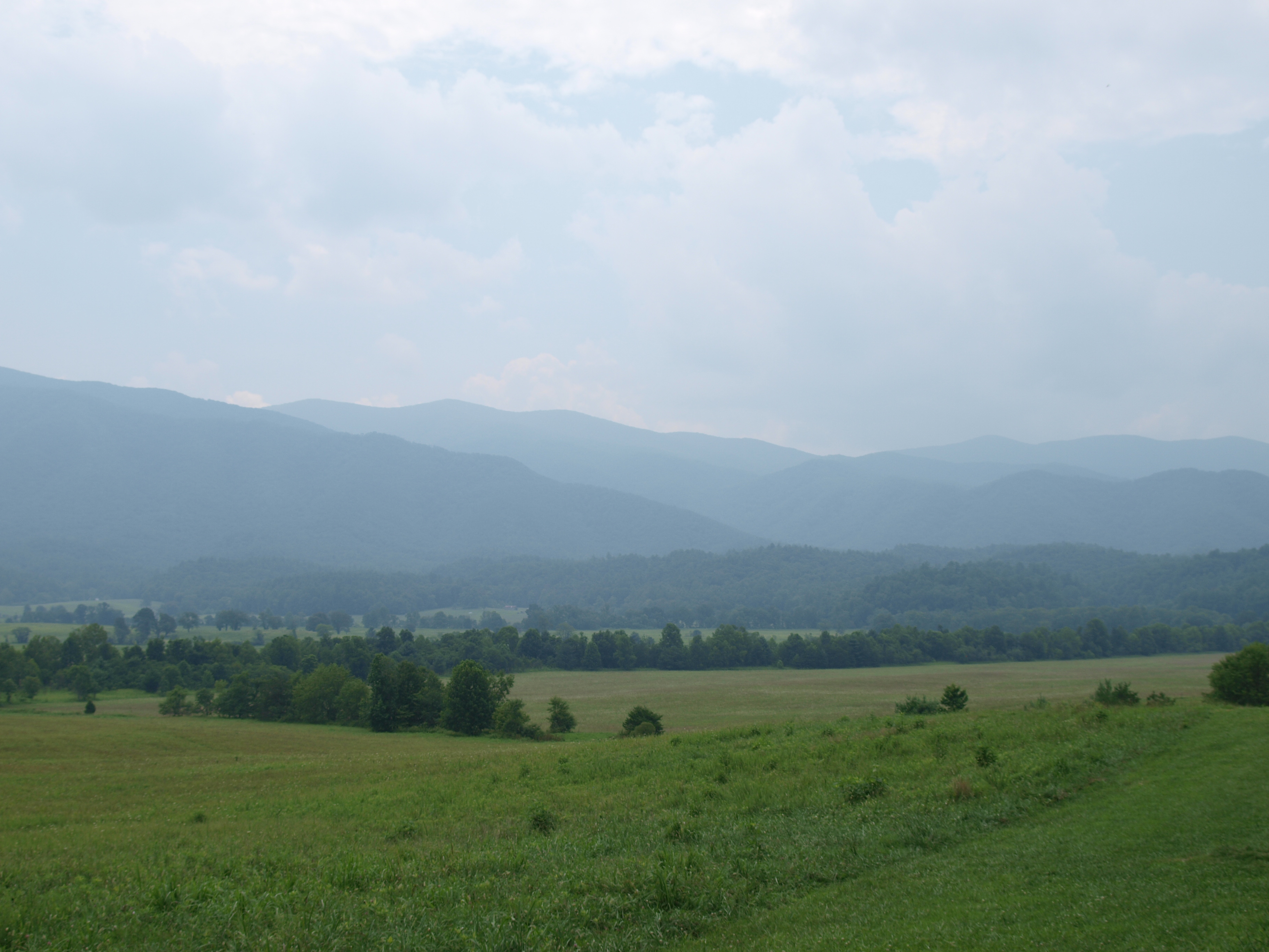 View of Great Smoky mountains from Cades Cove